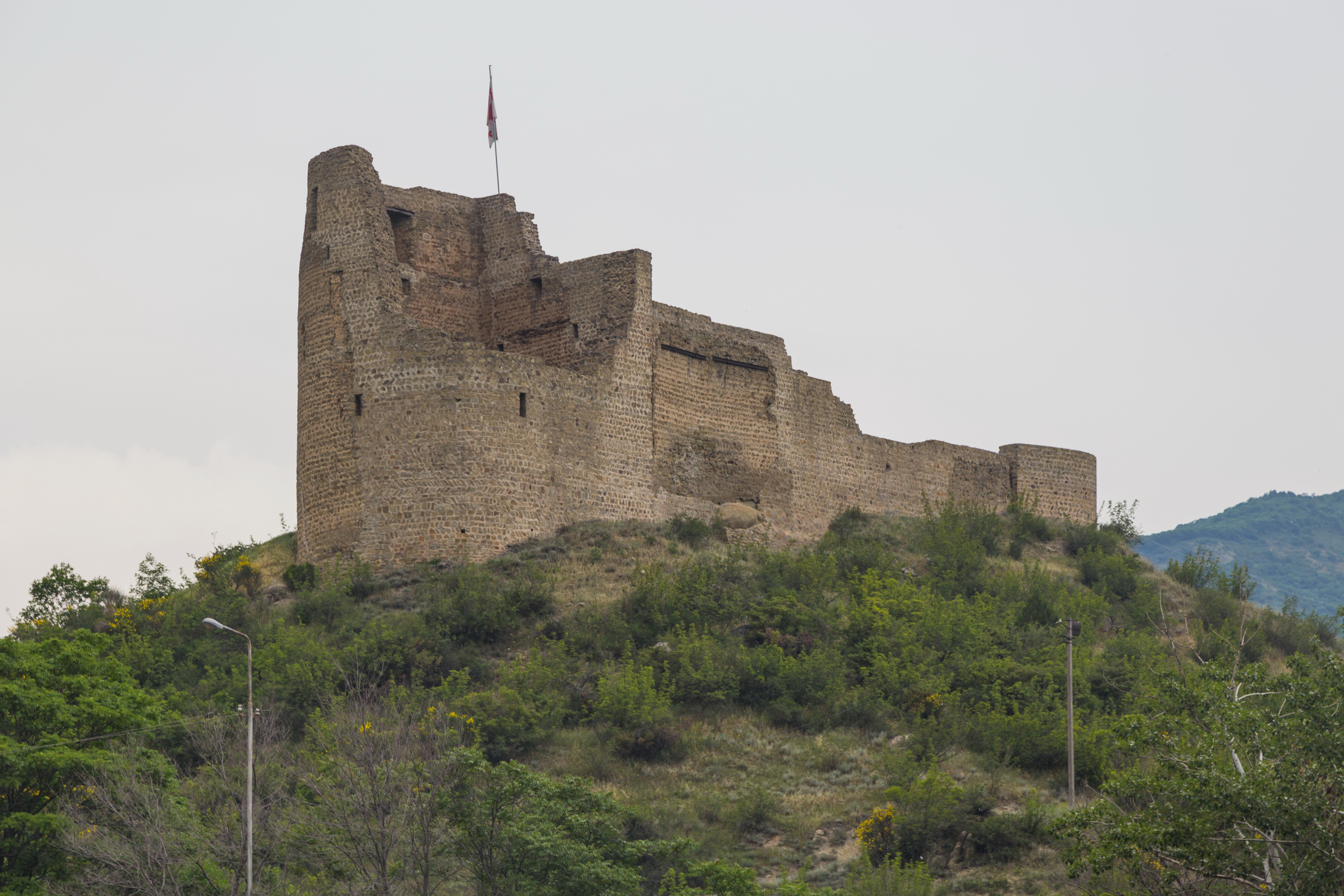 Bebris-Tsikhe Fortress. Mtskheta, Georgia.